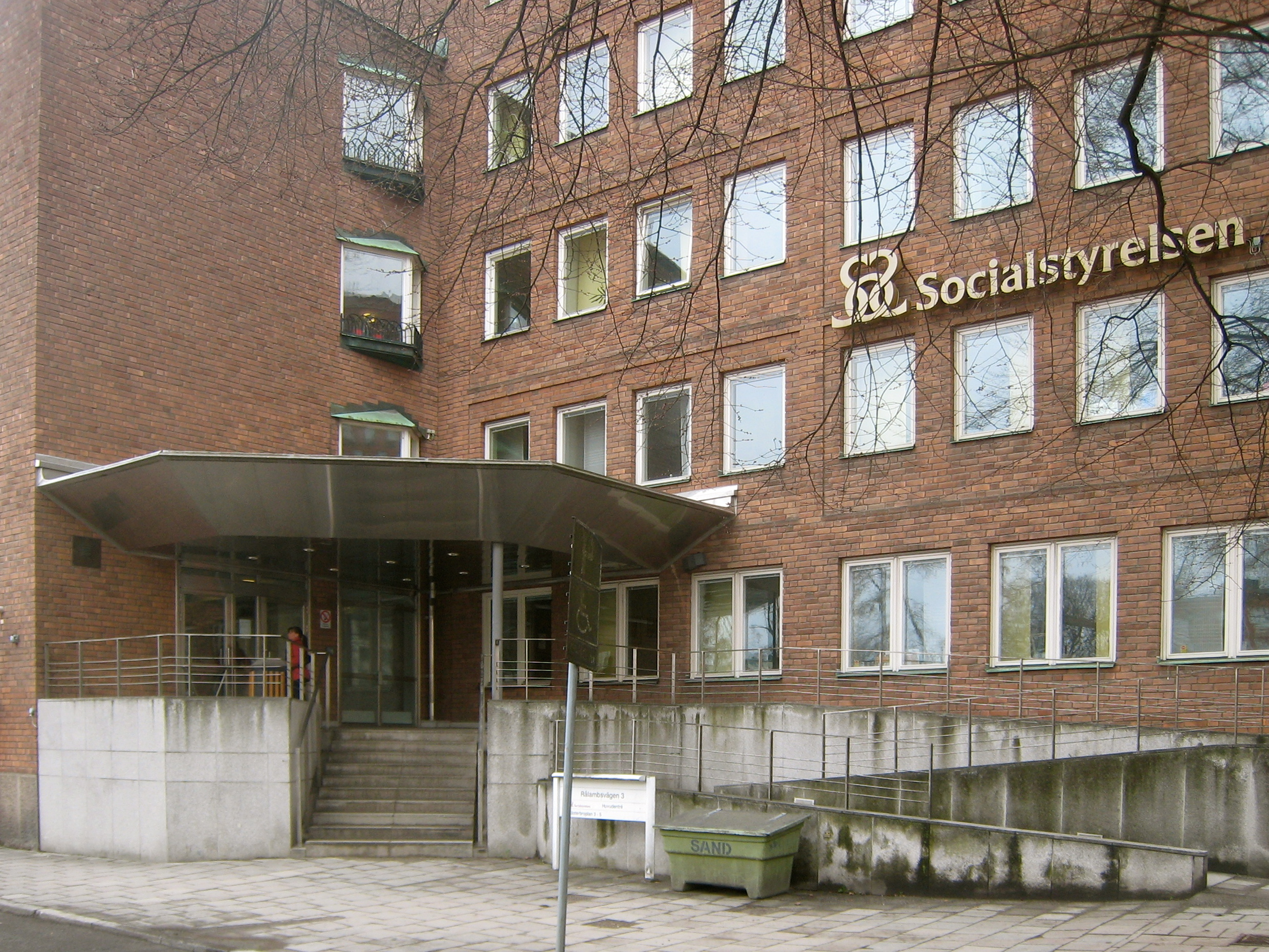 Socialstyrelsens huvudkontor.